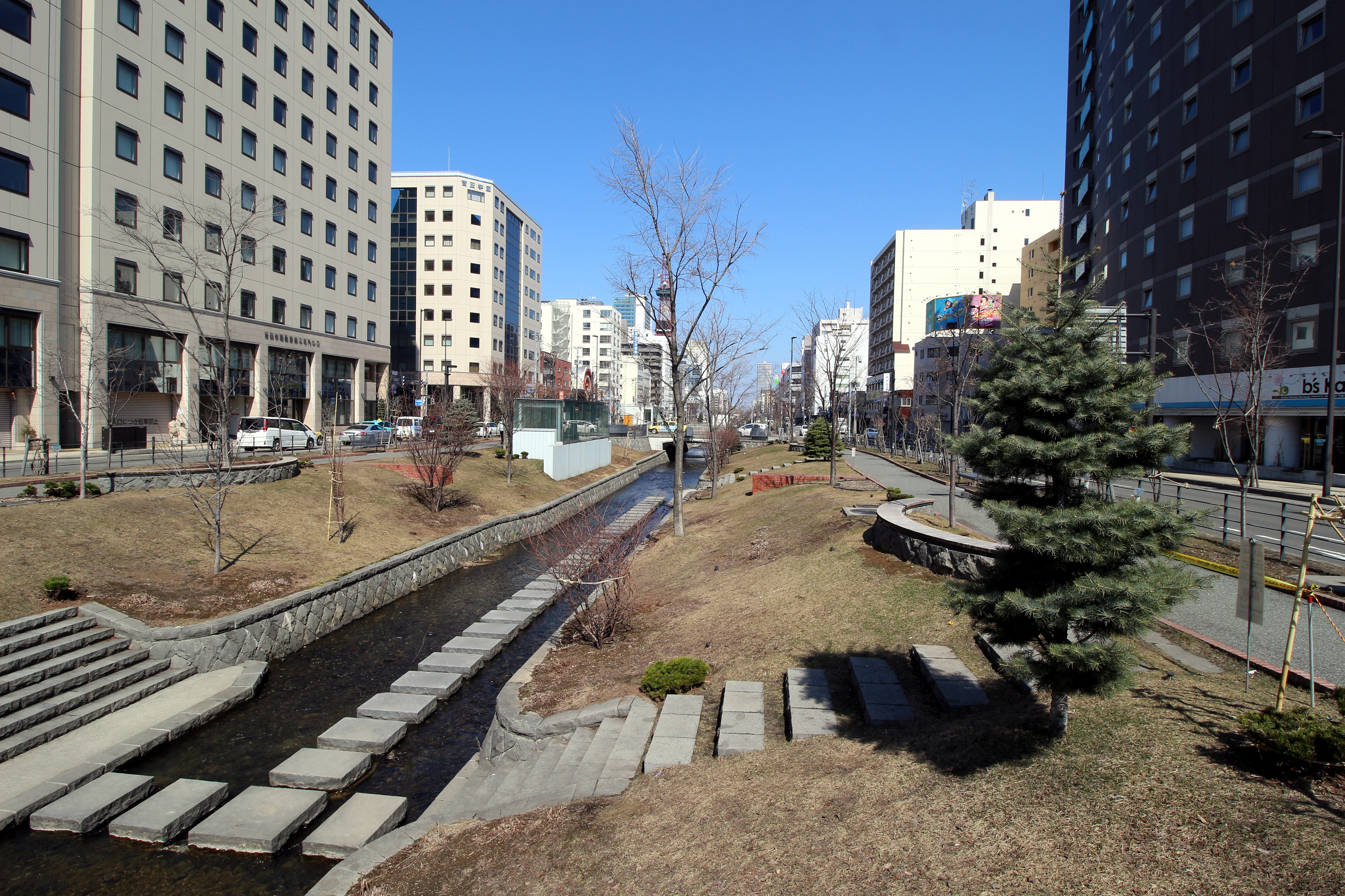 Soseigawa Park in Sapporo, Hokkaido.